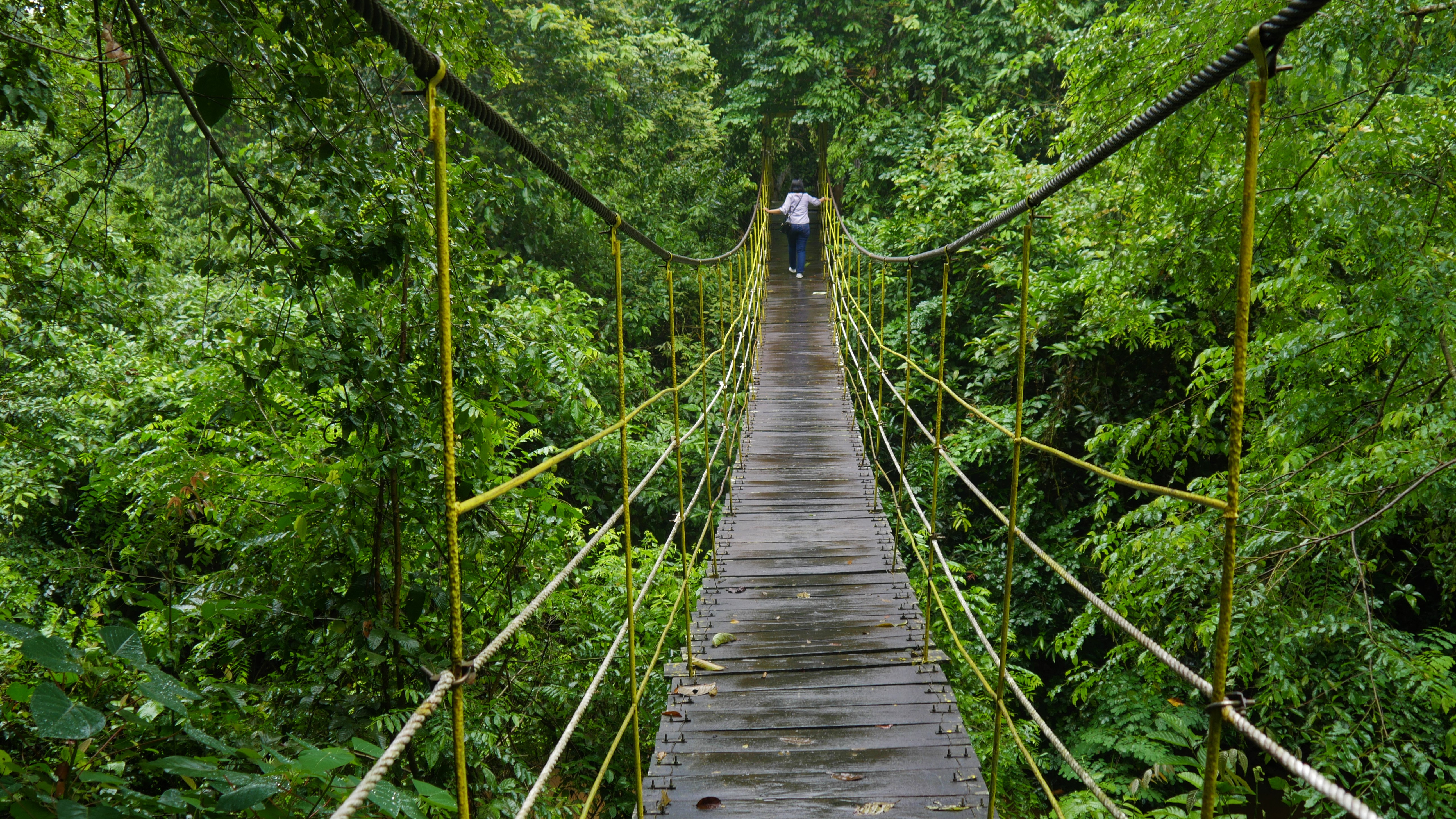 Sangkima Jungle Park is a tourist destination in Kutai National Park. There is a hanging bridge as attractive photography spot in this park.